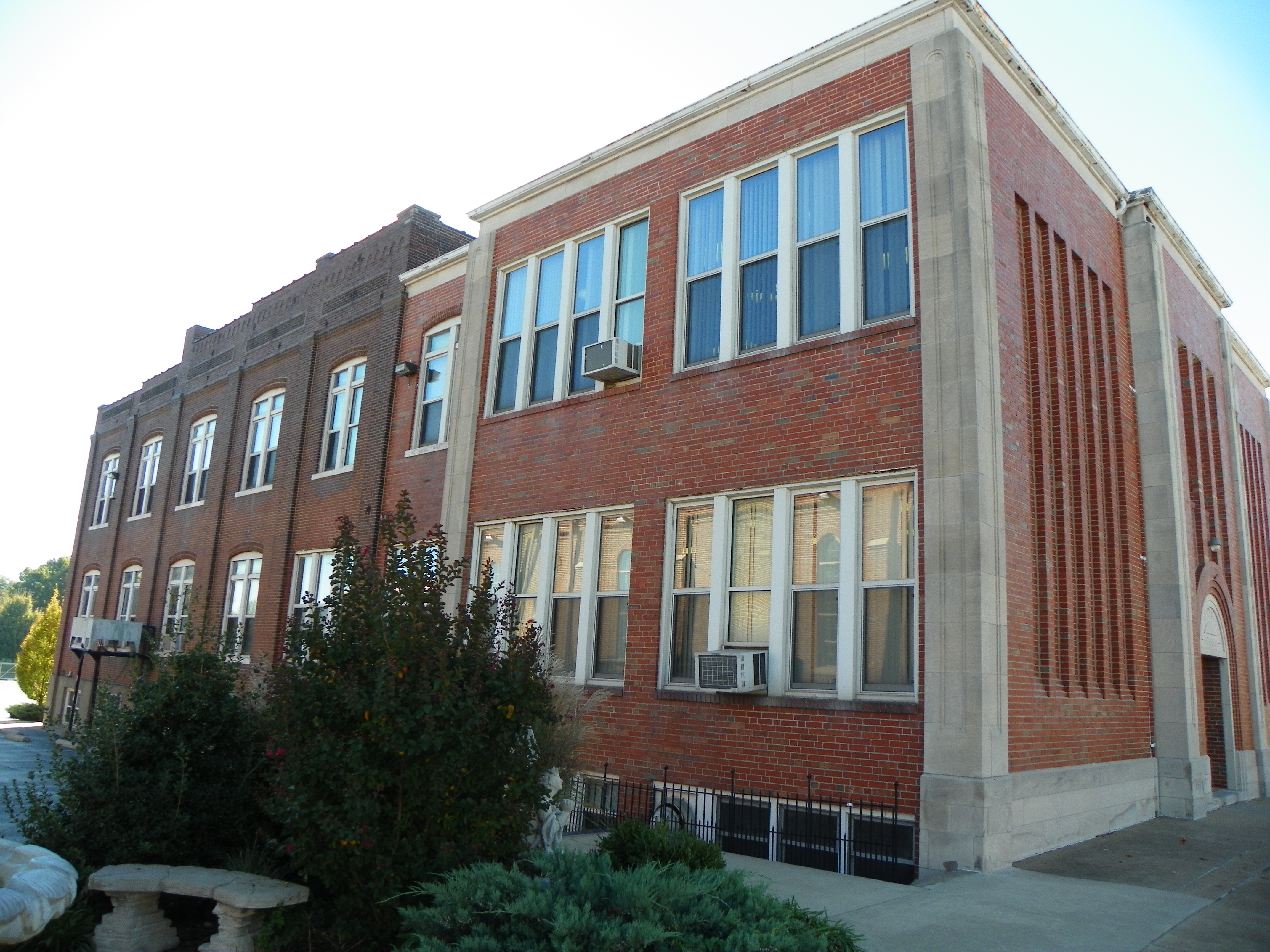 Catholic school beside Cathedral of St. Mary of the Annunciation Cape Girardeau, Missouri.